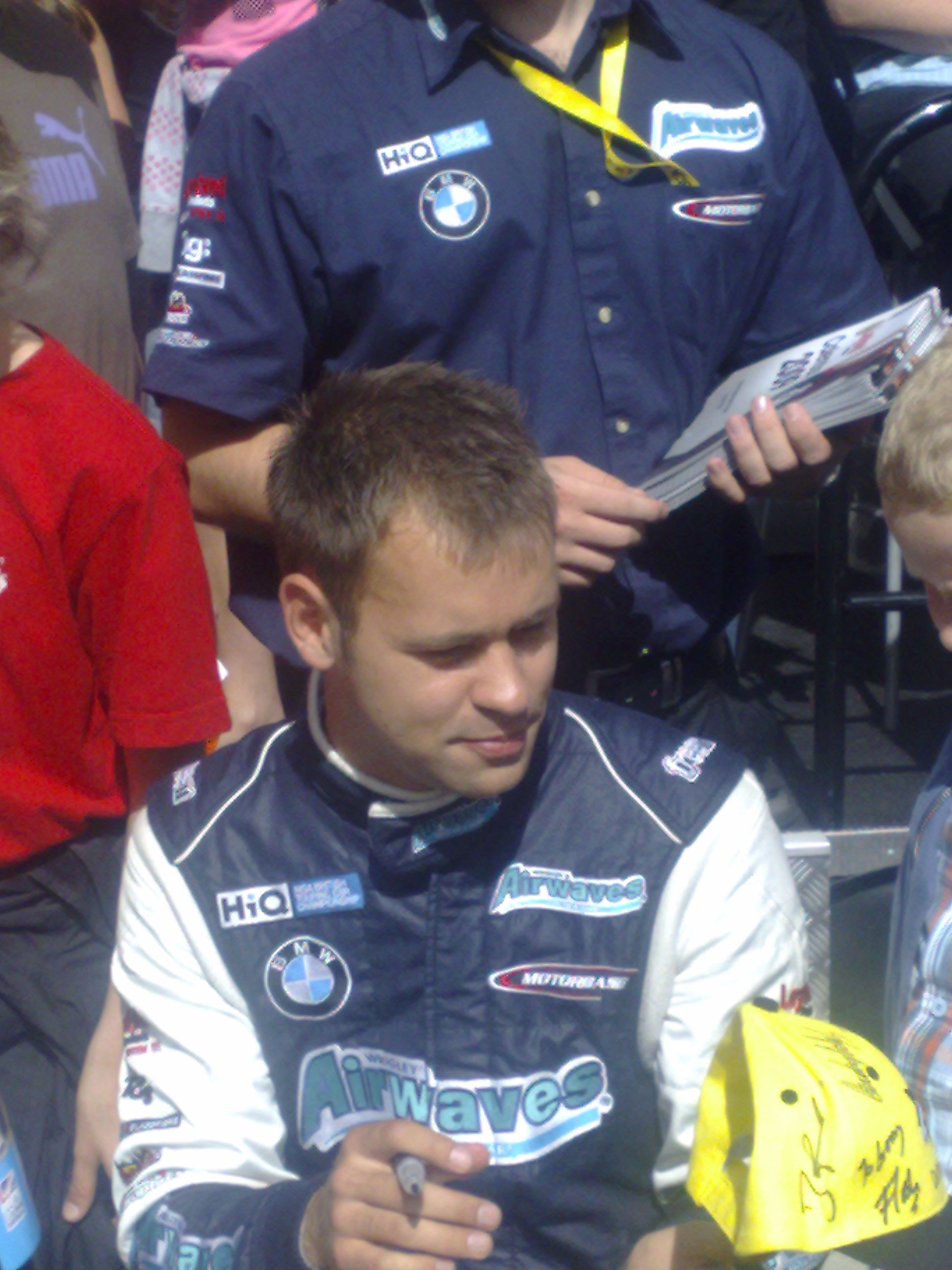 Jonathan Adam at the 2009 Dunlop British Touring Car Festival in Edinburgh.